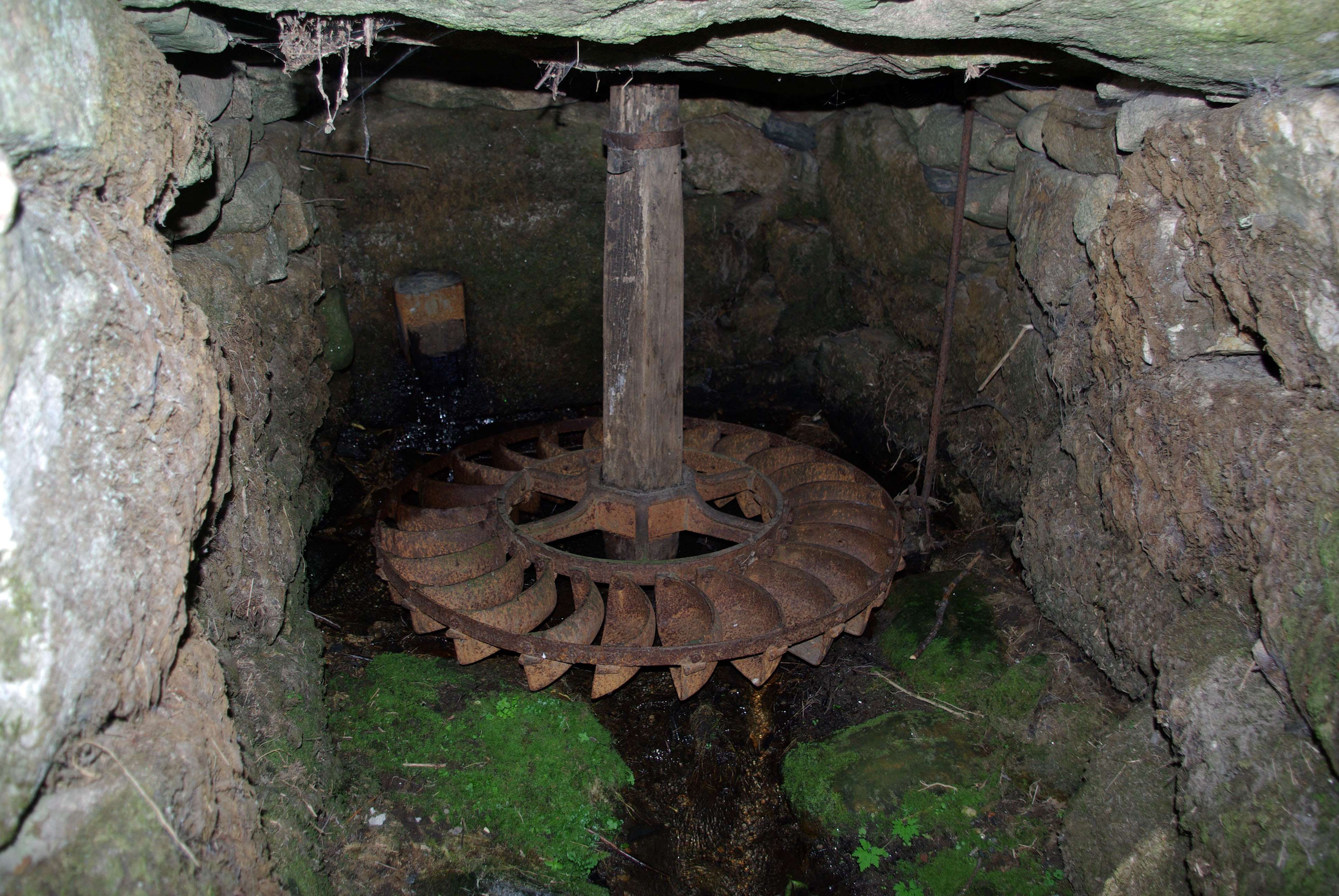 Water wheel of a watermill in Pentes river. Pentes, A Gudiña, Ourense (Spain).